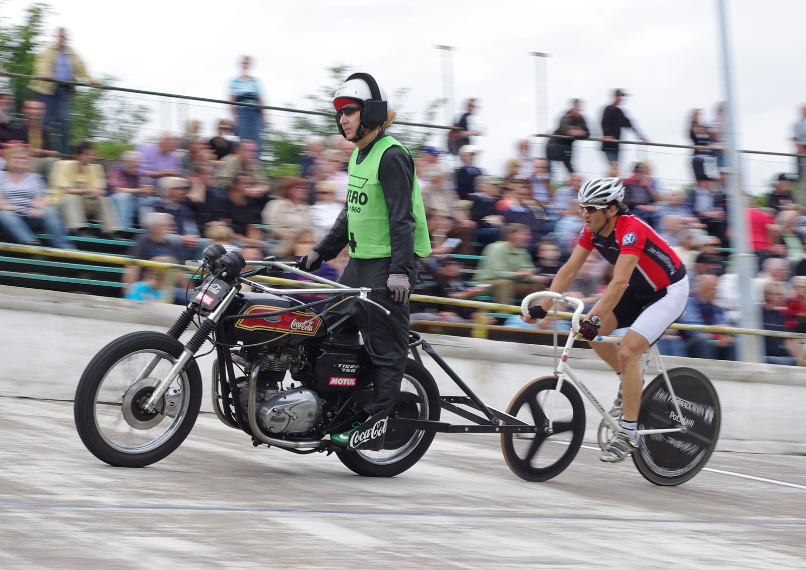 Pacemaker Karsten Podlesch with rider Timo Scholz in Bielefeld